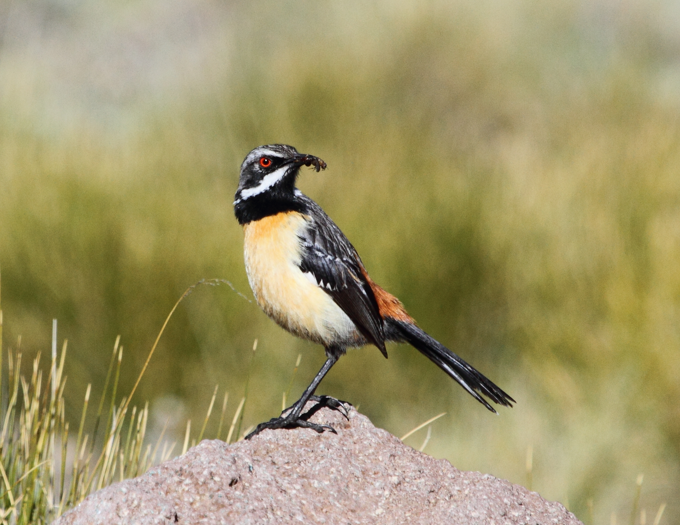 Male Drakensberg rockjumper Chaetops aurantius with insects. At Afriski, Butha-Buthe, Lesotho.